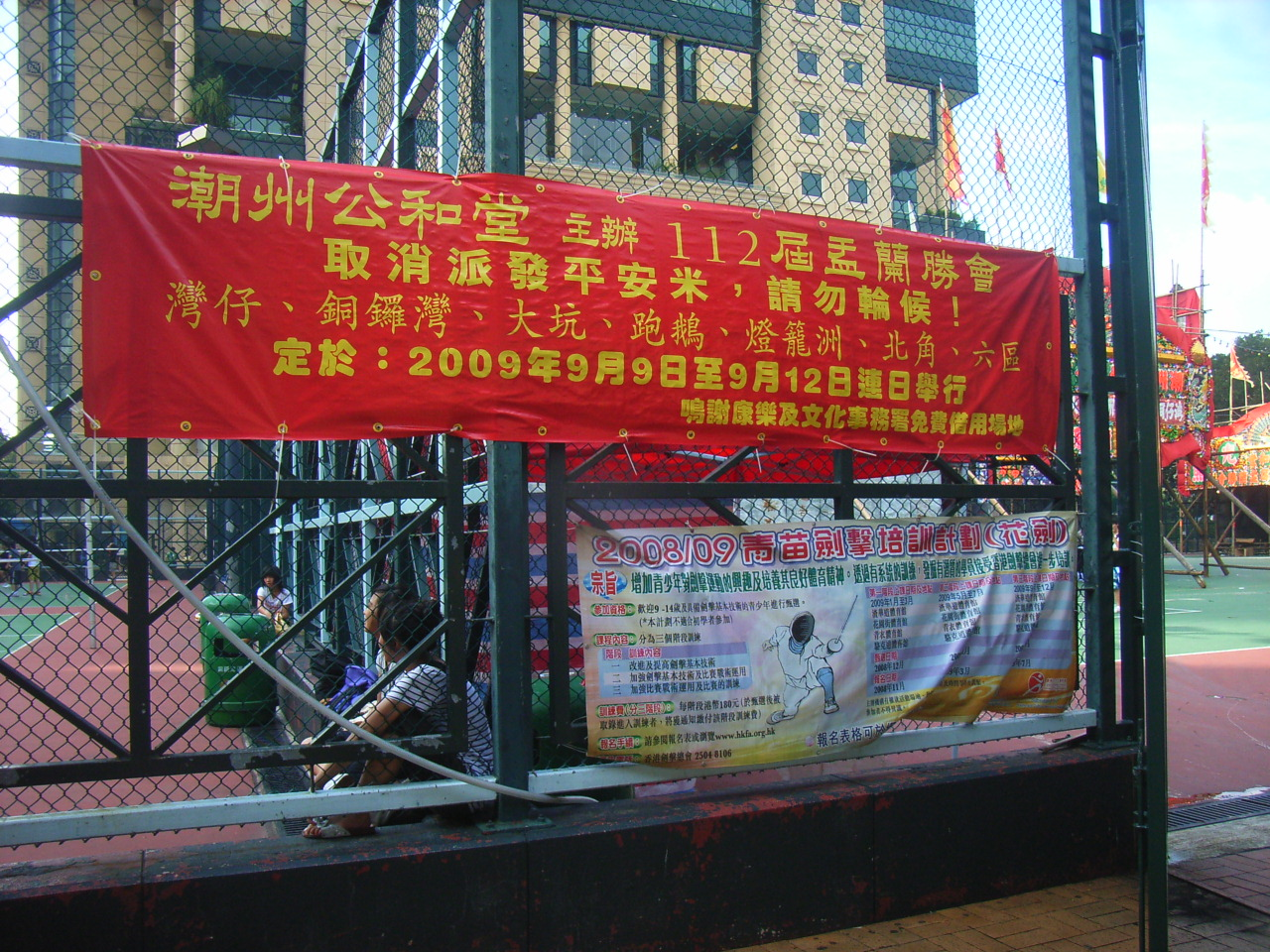 2009年9月zh:銅鑼灣摩頓台第112屆zh:盂蘭勝會 摩頓台臨時遊樂場